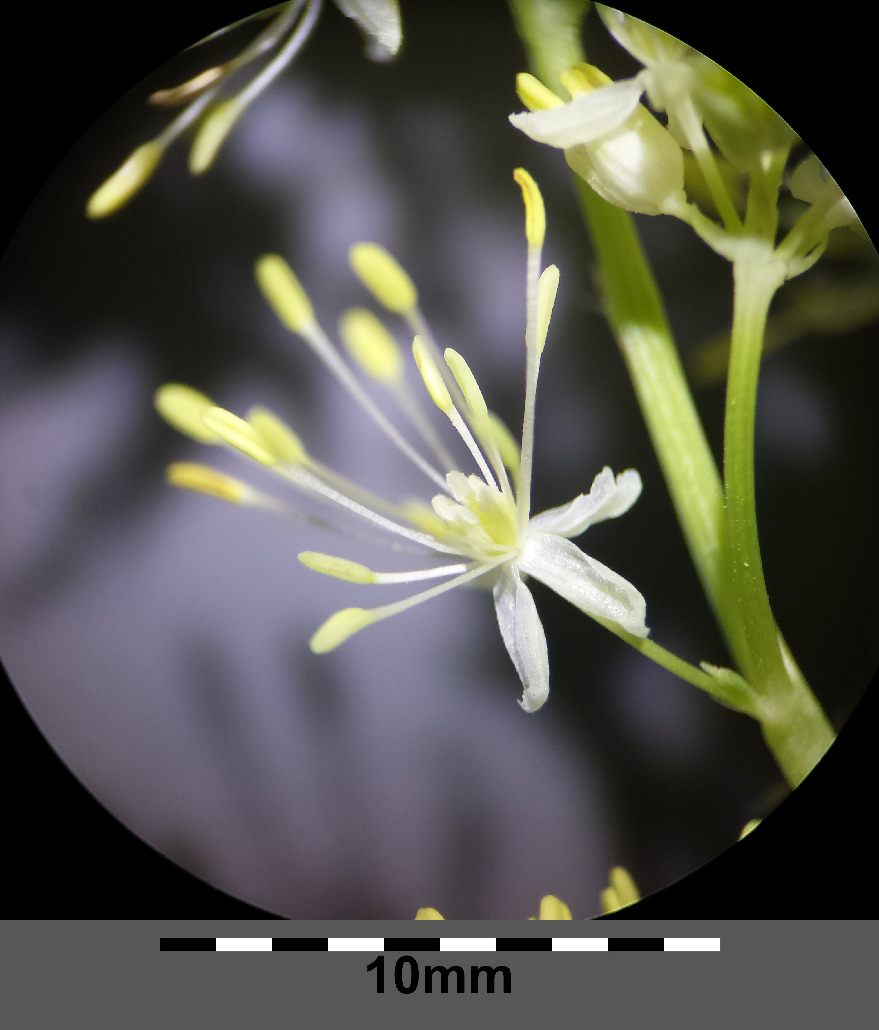 Flower Taxonym: Thalictrum lucidum ss Fischer et al. EfÖLS 2008 ISBN 978-3-85474-187-9 Location: Rohrwald, district Korneuburg, Lower Austria - ca. 250 m a.s.l. Habitat: Wet meadows